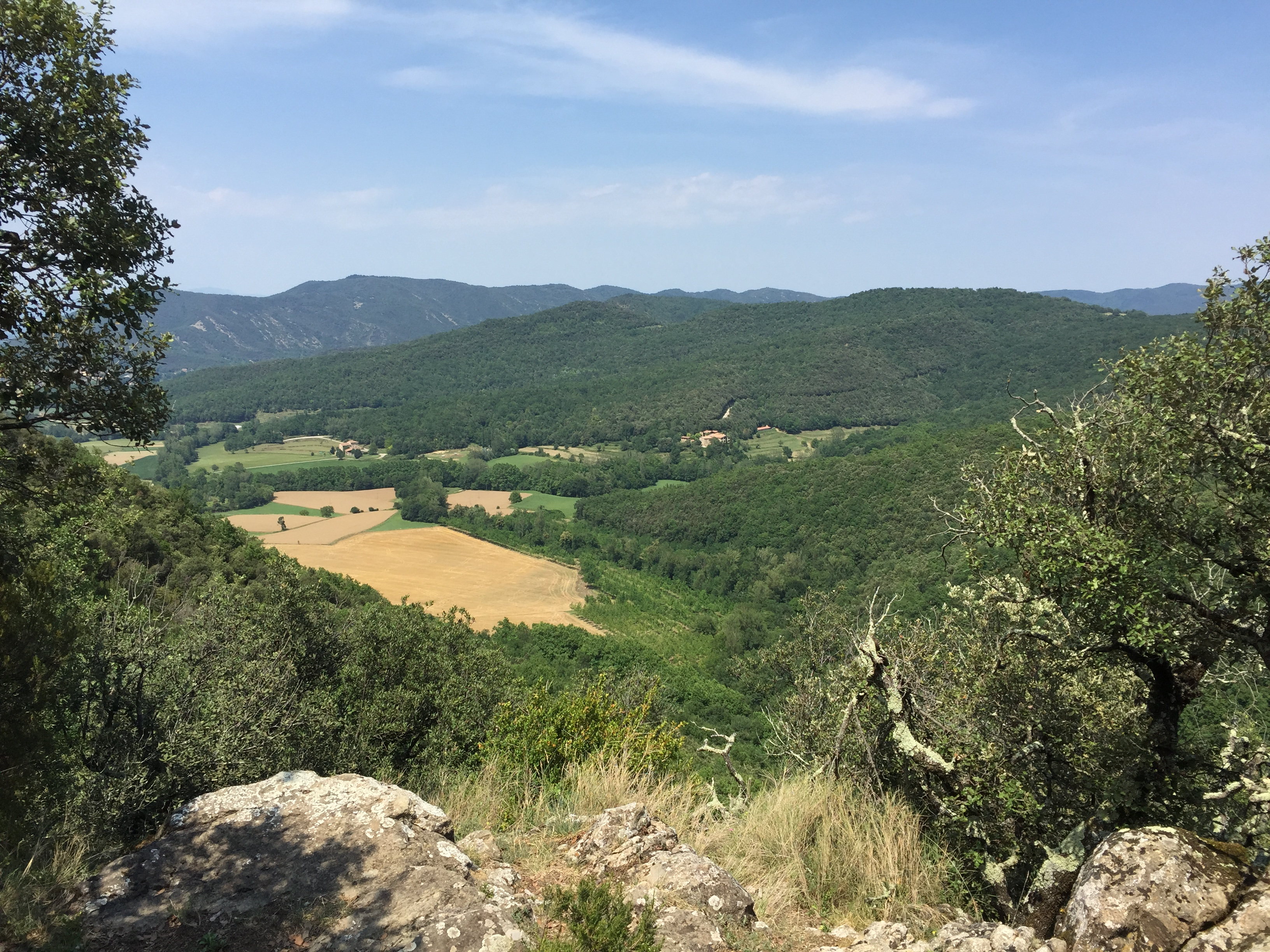 La Vall d'en Bas, Province of Girona, Spain